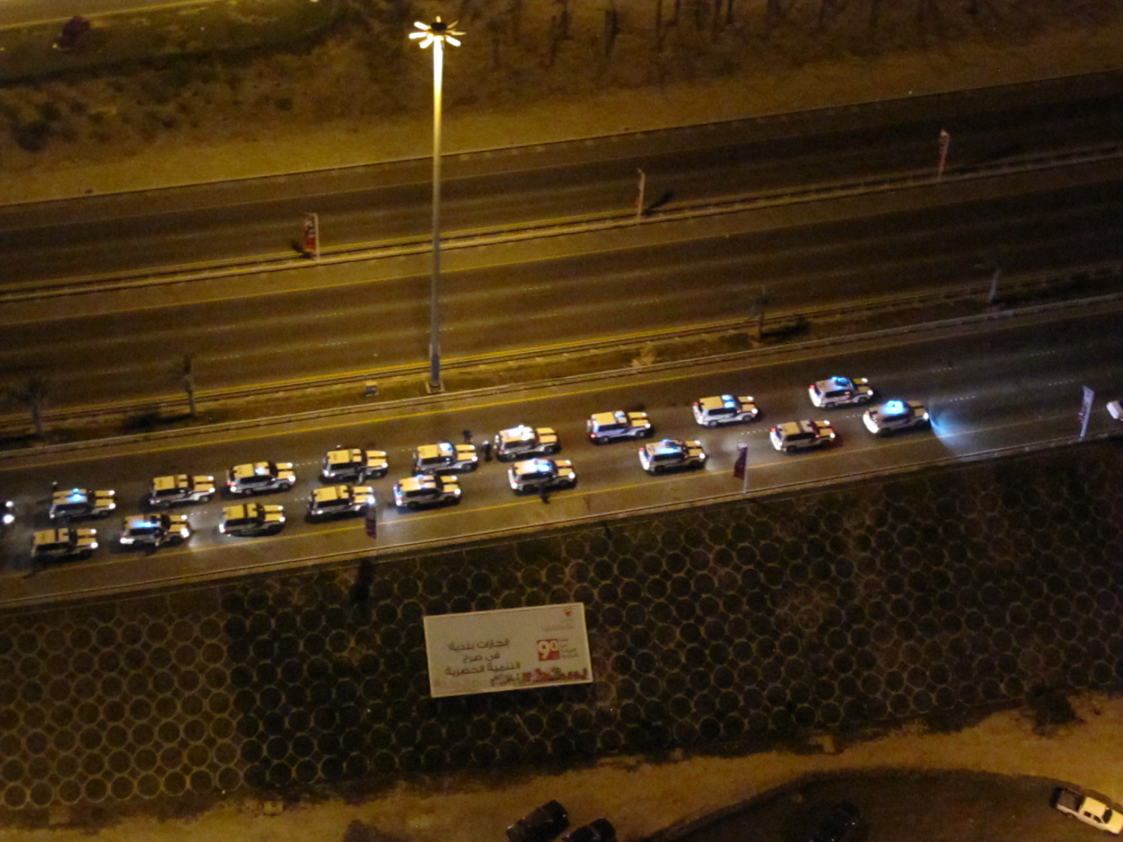 Protests in Bahrain, February 2011